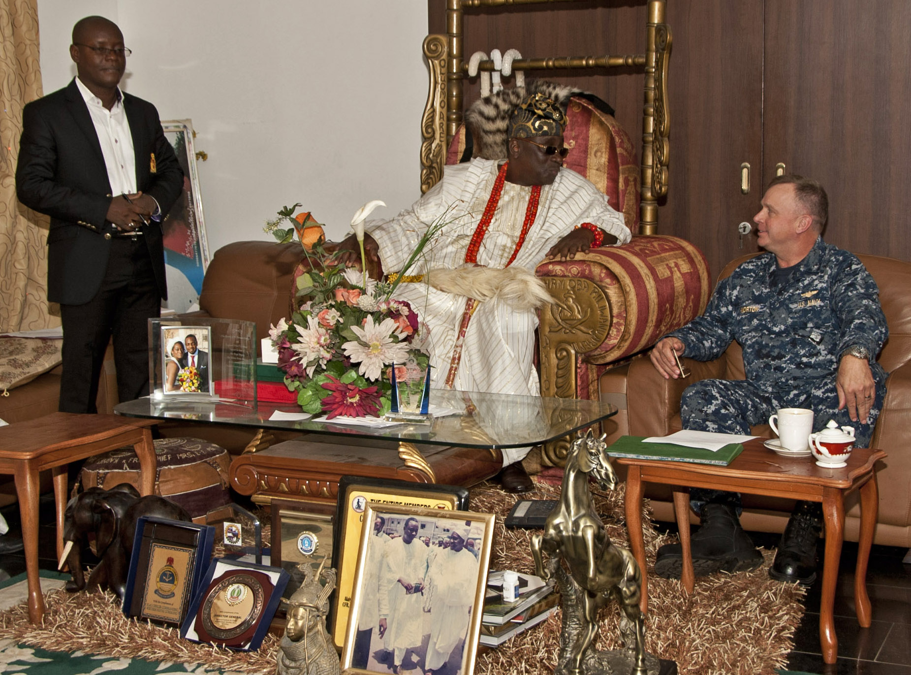 LAGOS, Nigeria (Aug. 8, 2011) Rear Adm. Kenneth J. Norton, deputy chief of staff for Strategy, Resources and Plans at U.S. Naval Forces Europe-Africa, visits with His Royal Majesty Alaiyeluwa Oba Riliwanu Babatunde Osuolale Arema Akiolu I, Oba of Lagos, during a visit to Nigeria supporting Africa Partnership Station (APS) West. APS is an international security cooperation initiative, facilitated by Commander, U.S. Naval Forces Europe-Africa, aimed at strengthening global maritime partnerships through training and collaborative activities in order to improve maritime safety and security in Africa. (U.S. Navy photo by Mass Communication Specialist 3rd Class Ian Carver/Released)